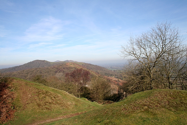 North Gate, Midsummer Hill The inturned entrance to the iron-age hill fort. Beyond are the northerly hills of the Malvern range. The left hand hill is Herefordshire Beacon, another iron-age hill fort. In the middle in the distance is the highest of the Malvern hills, Worcestershire Beacon. Pinnacle and Black hills are to the right.